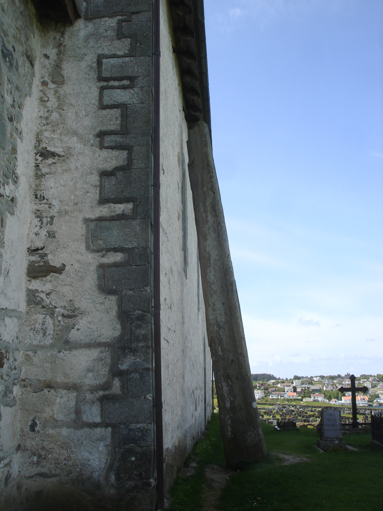 The pre-christian menhir close to the north wall of Avaldsnes Church is called Mary’s sewing needle. It is one of the tallest i Norway, 7.2 m. Its name is derived from a runic inscription ’’Mikjall Mariu næstr’’ (St. Michael is next in rank to St. Mary). Local legend tells that Mary’s needle will touch the wall on the Day of Judgment